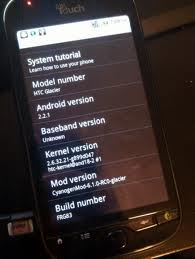 me showing my phonein settings